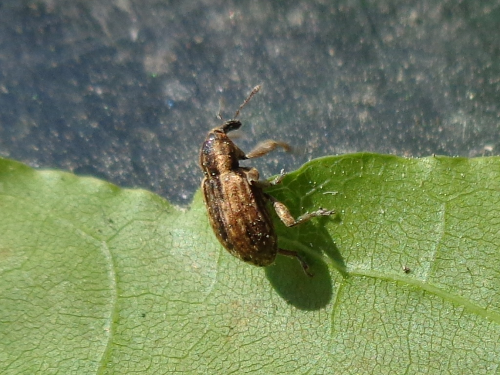 Hypera postica. Found ir Rīga town, Latvia.